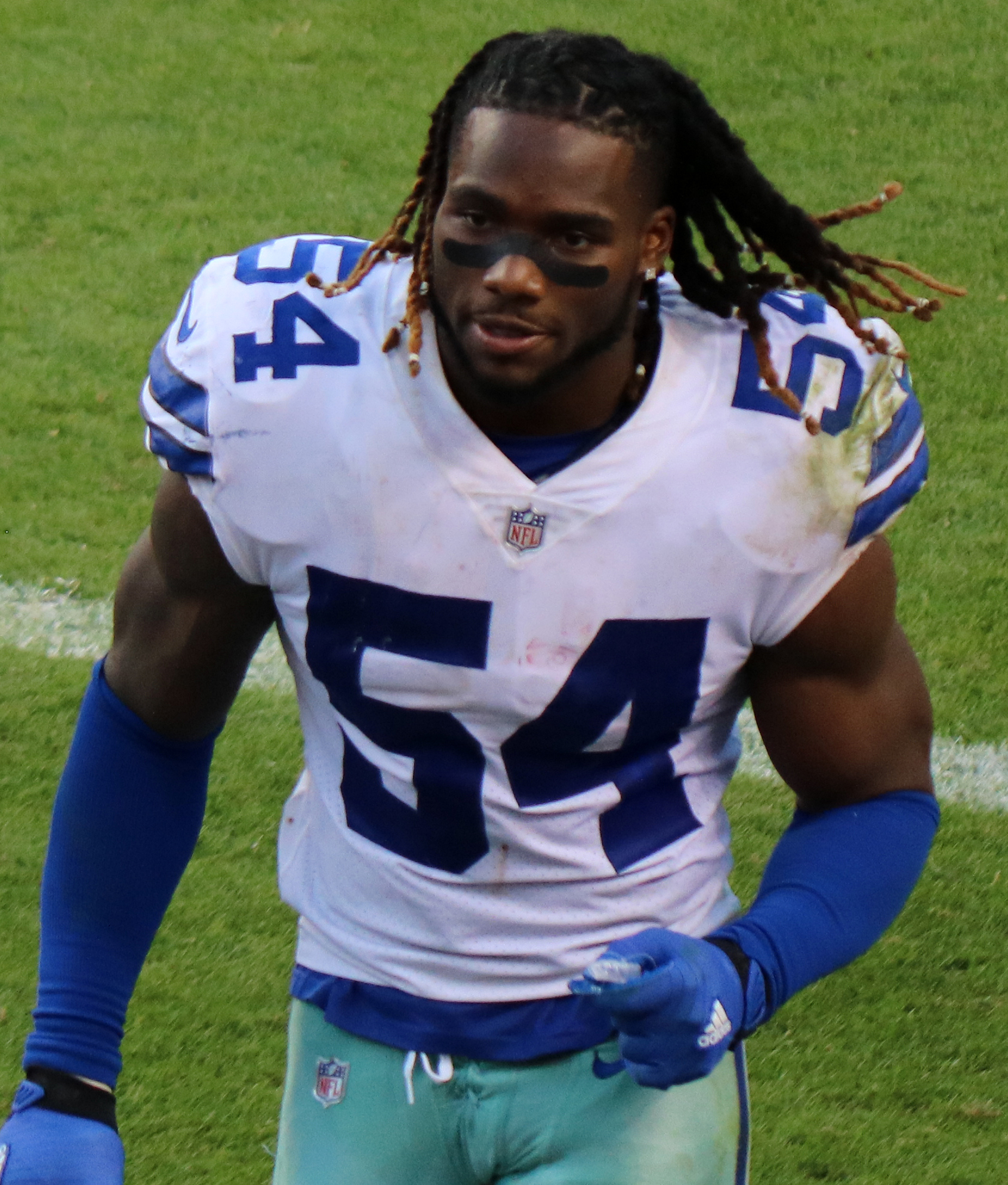 Jaylon Smith, a player on the National Football League.